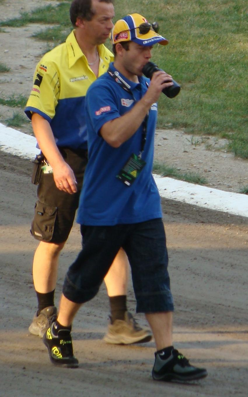 Dannish speedway rider Kenneth Bjerre before Speedway Grand Prix of Poland in Toruń